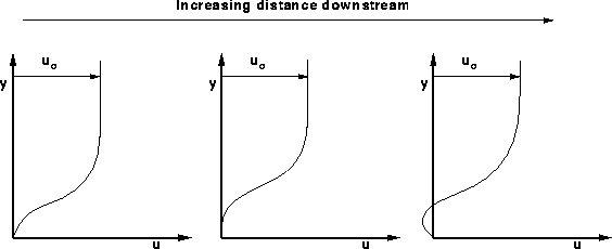 Visual of flow separation